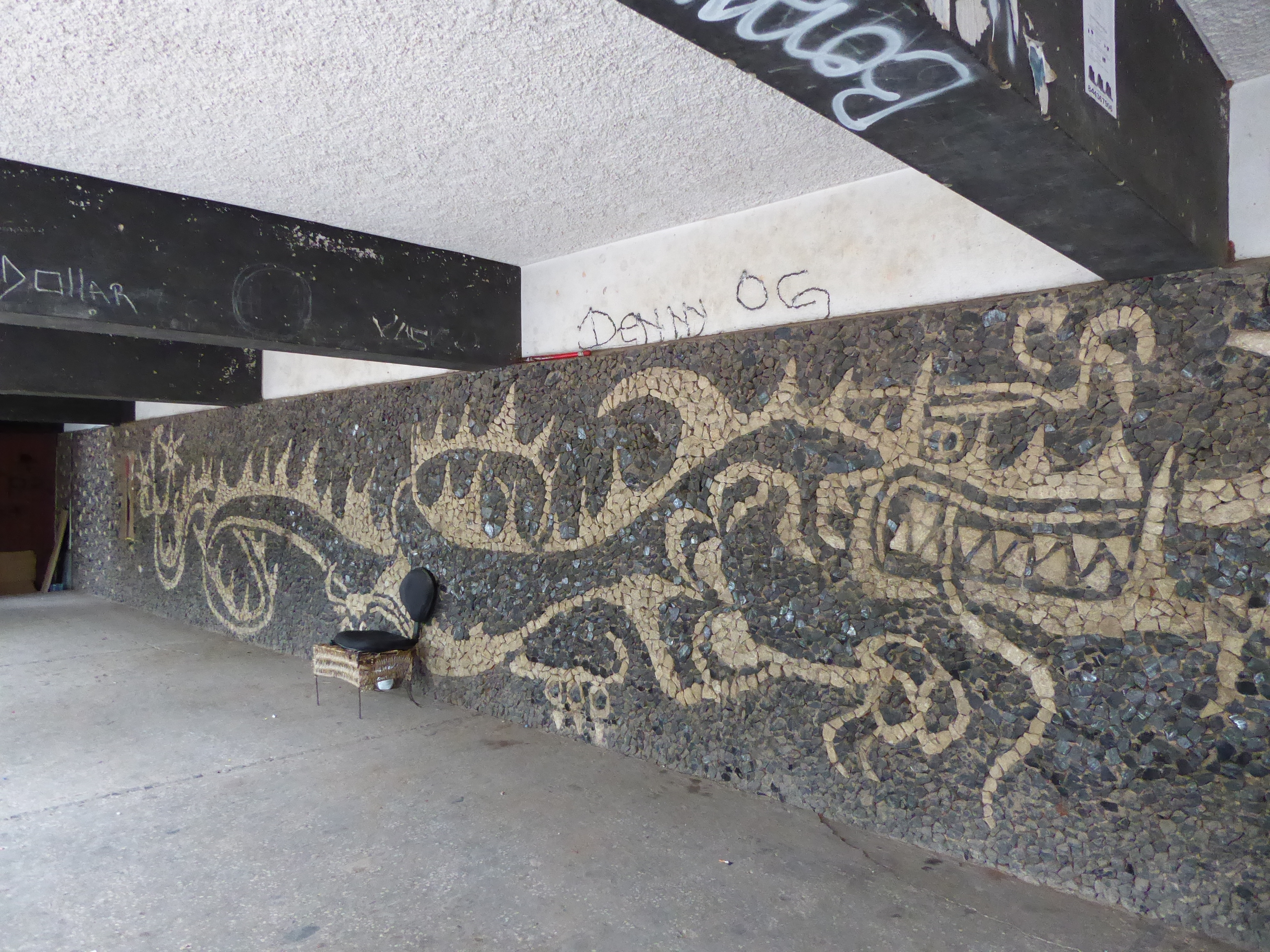 Dragon at the "Dragon House" in Maputo, Mozambique